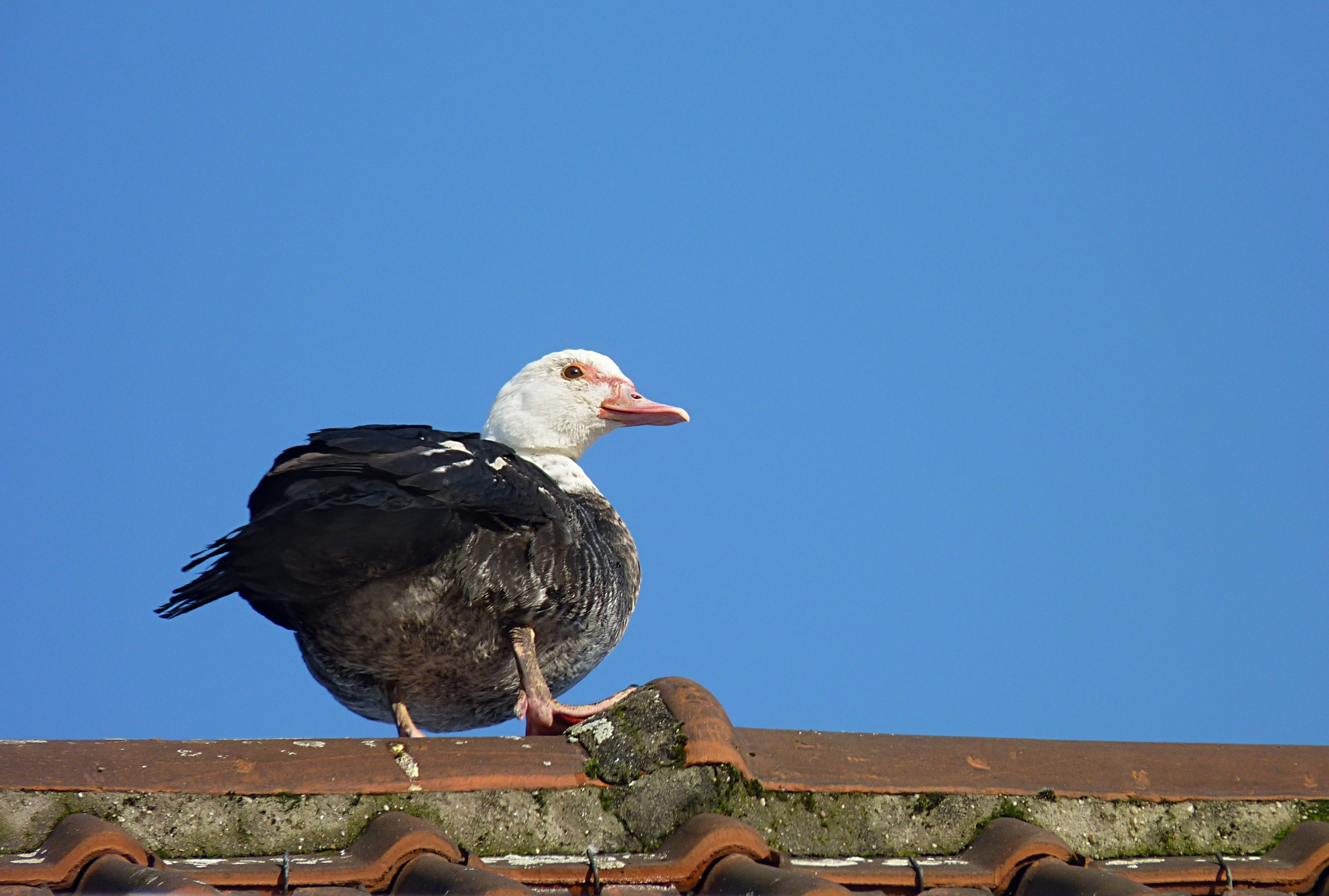 Muscovy duck on a roof, picture taken in Belgium.